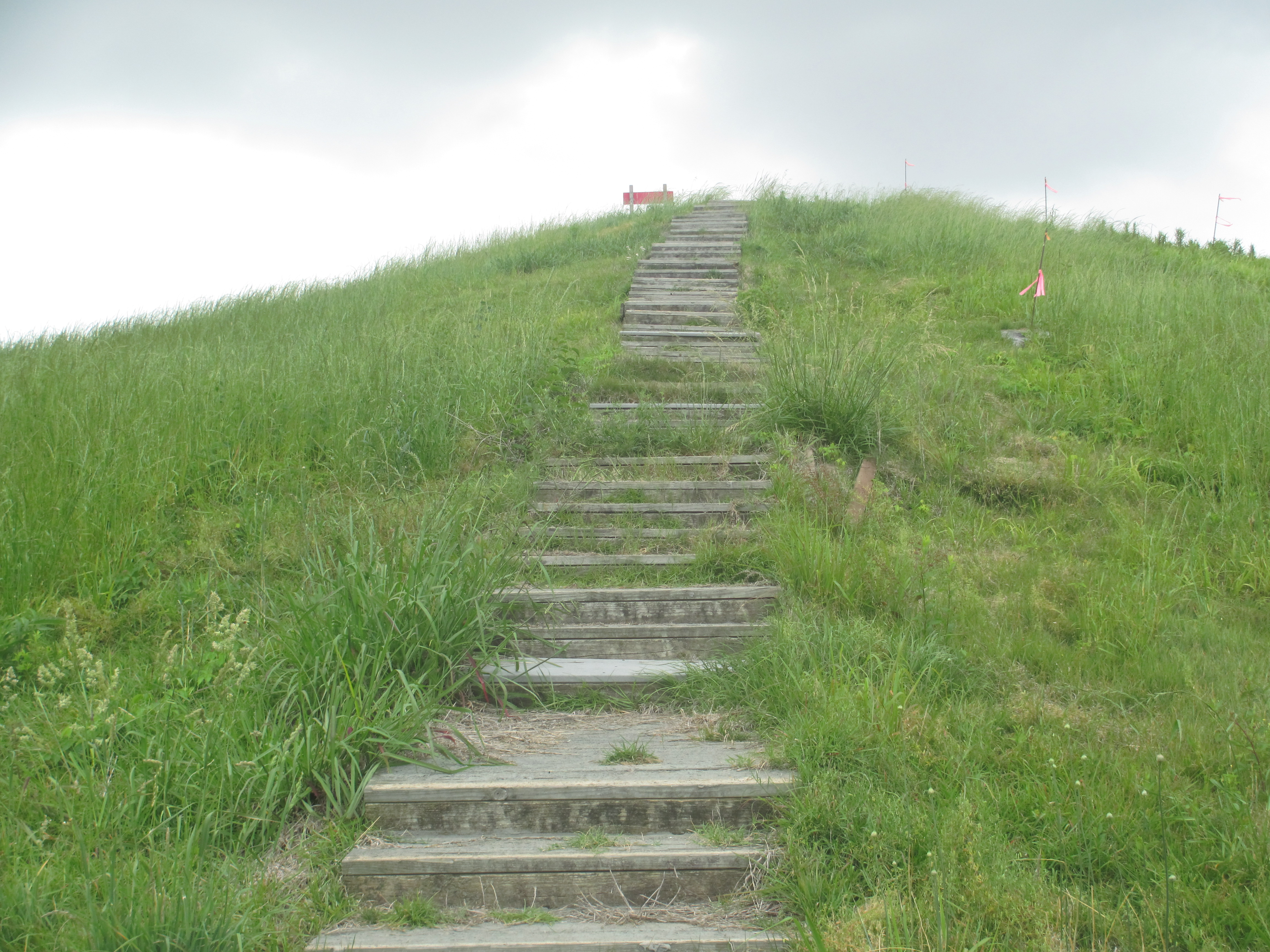 I took photo of steps to Mound A at Poverty Point with Canon camera.